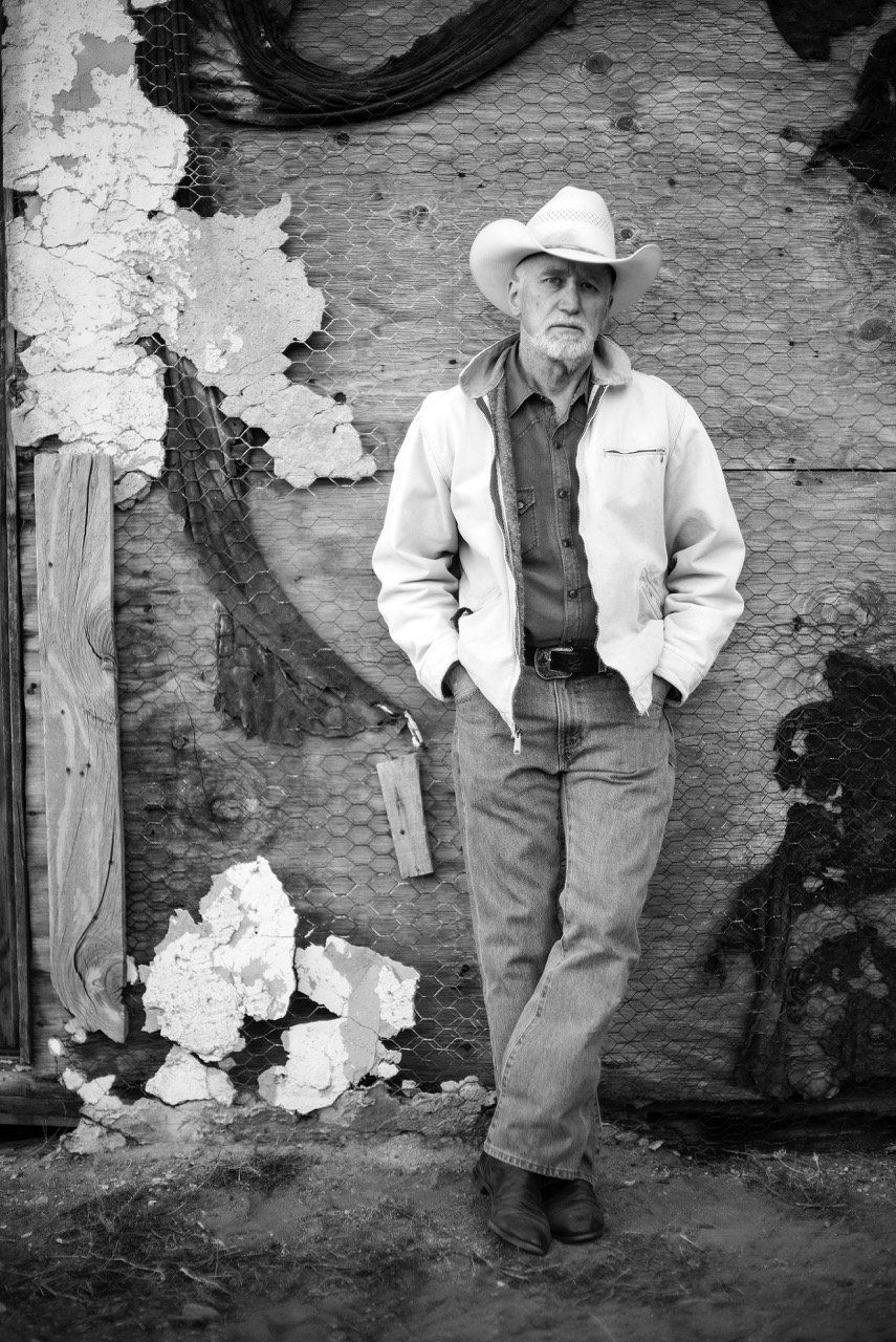 Photographer Kurt Markus by Christopher Michel.